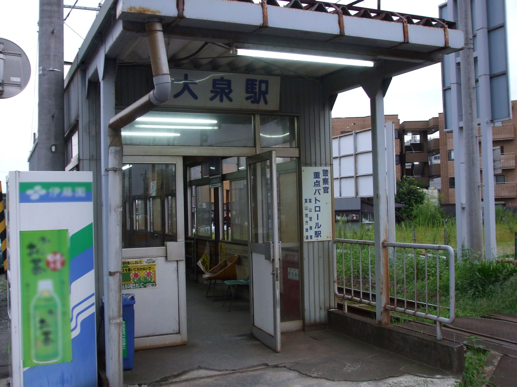 Ōizumi Station on the Toyama Chiho Railway Fujikoshi Line in the city of Toyama, Toyama Prefecture, Japan